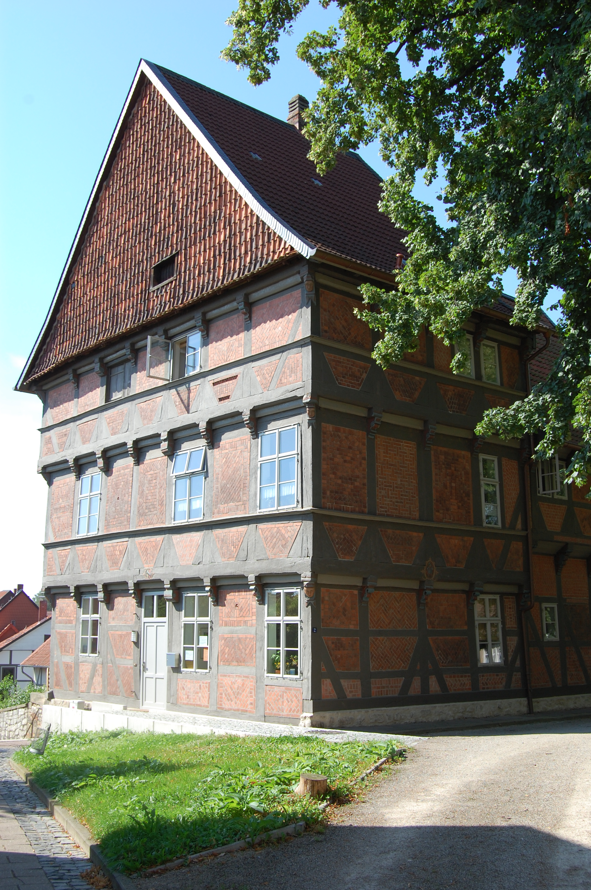 A churchly building in Bockenem.